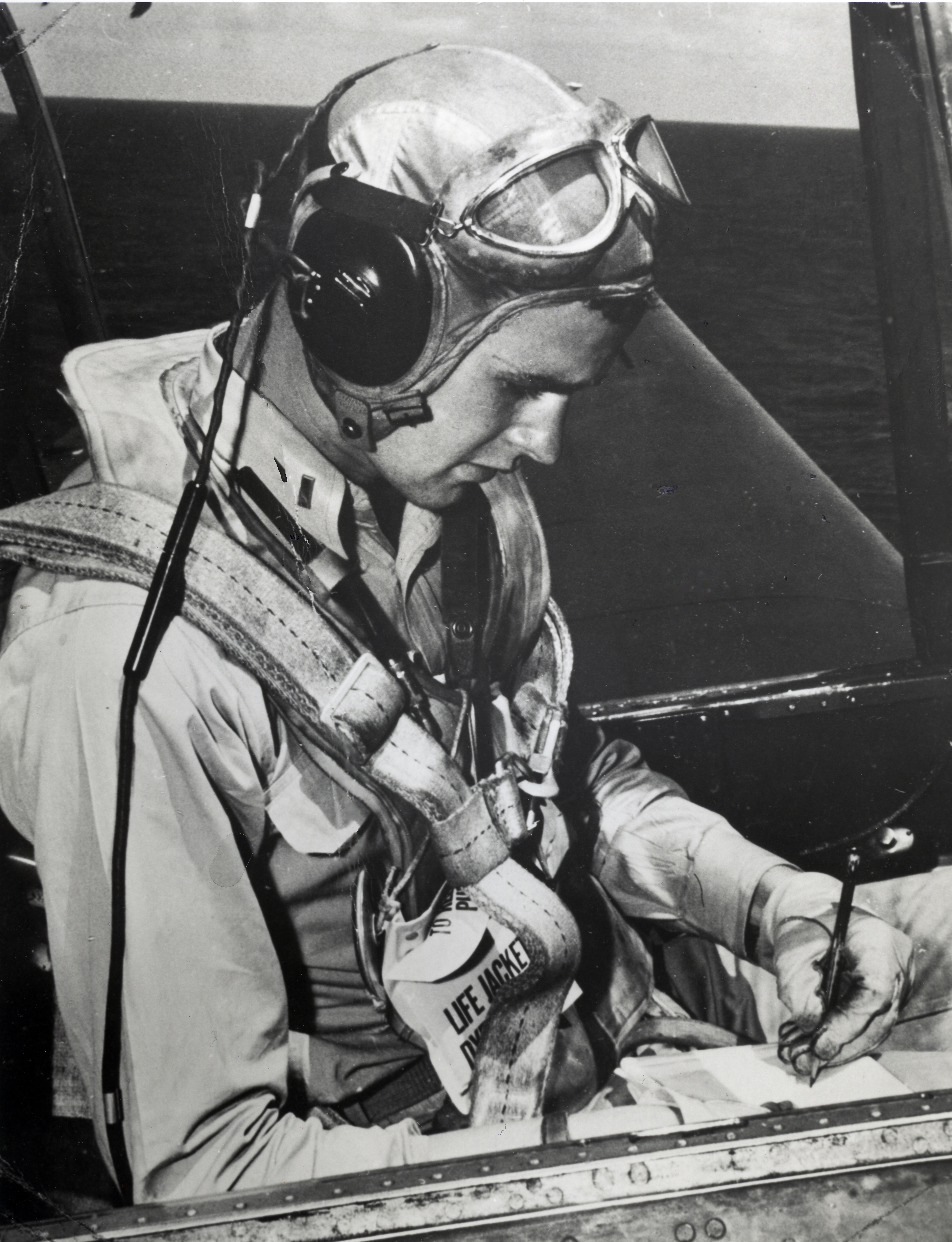 The later U.S. president George Herbert Walker Bush as a pilot, seated in a Grumman TBM Avenger aircraft.